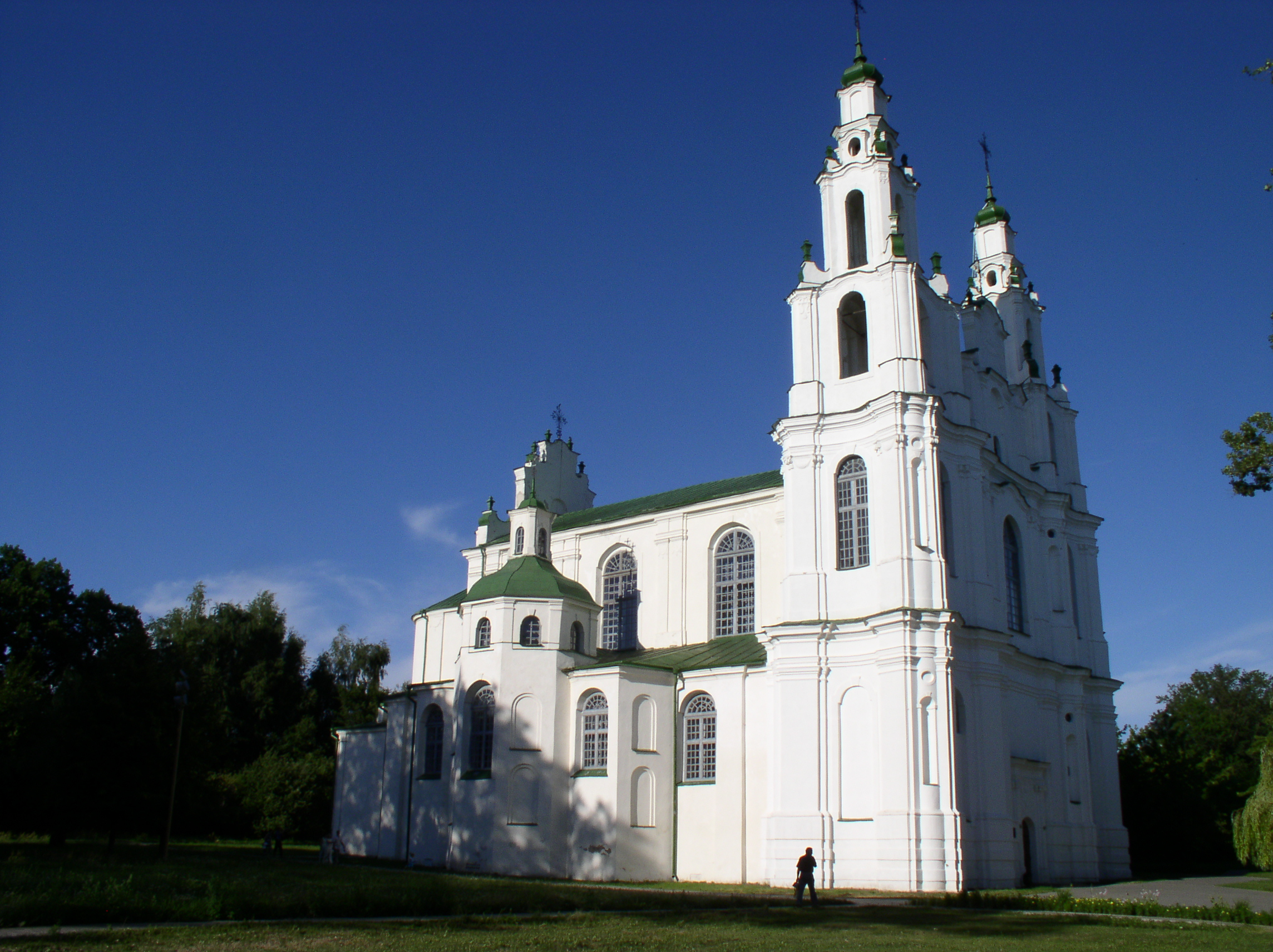 Cathedral of Saint Sophia. Polatsk, Belarus.